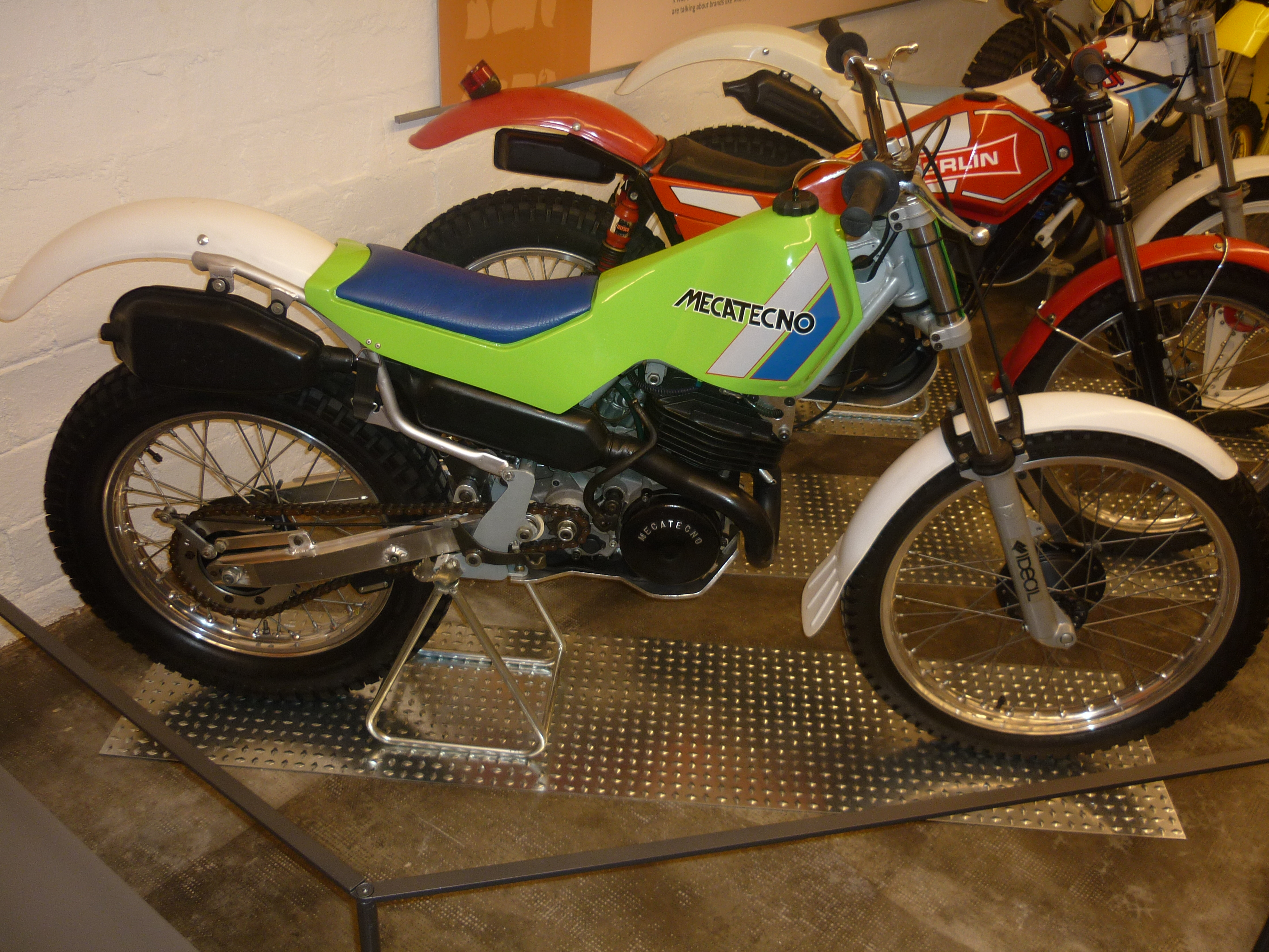 Mecatecno MR 326 325cc (1985). Museu de la Moto de Barcelona (Catalonia).